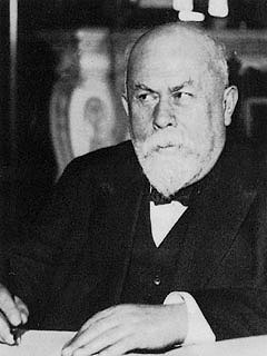 Henri Chéron, french Senator and Minister